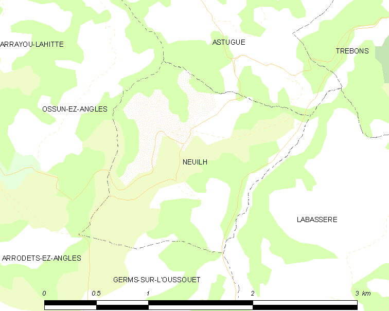 Map of French municipality